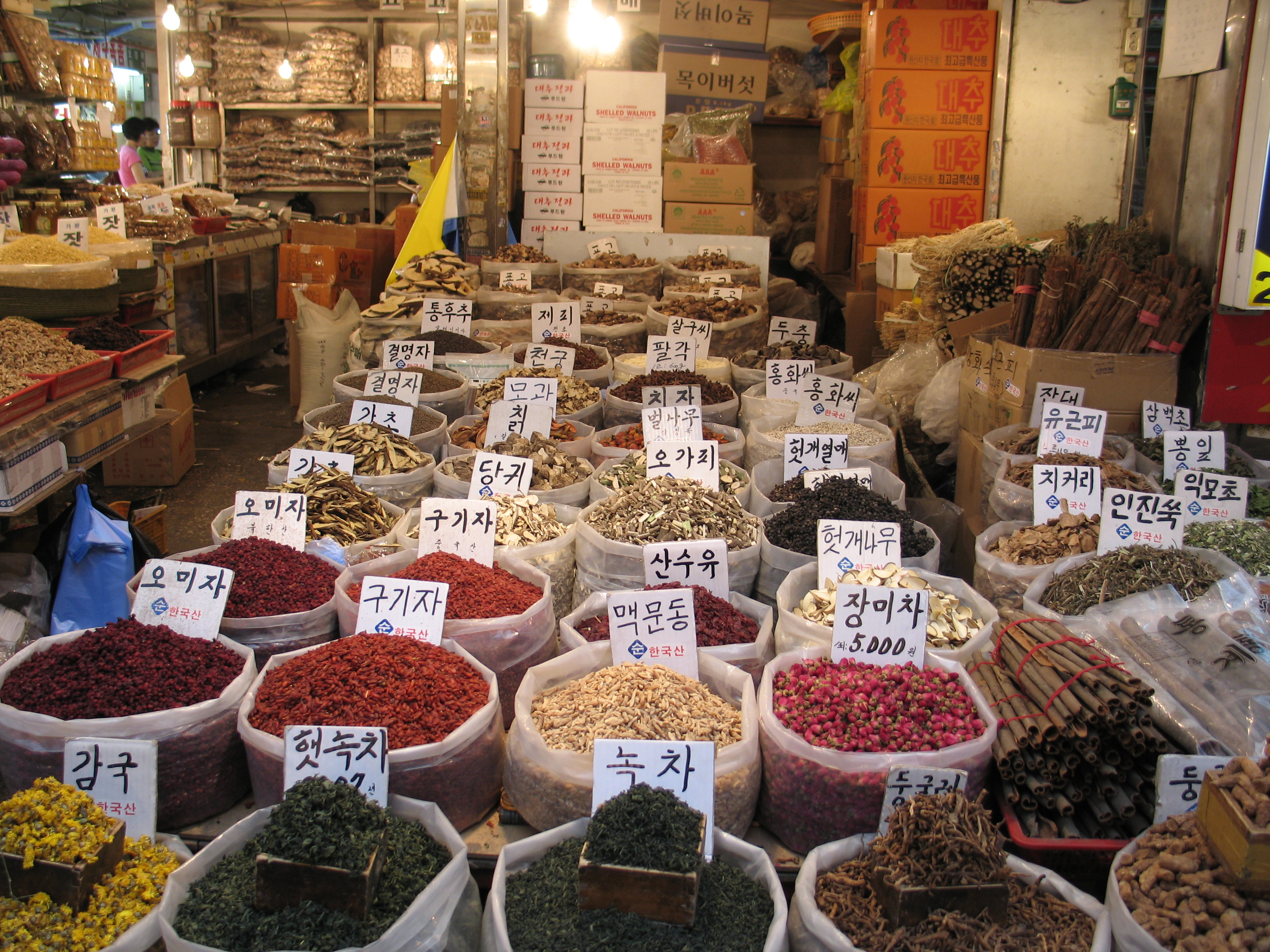 Gyeongdong Market, located in Jaegi-dong area of Dongdaemun-gu, Seoul is the largest oriental herbal market of South Korea.